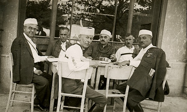 Банкет в чест на председателя на Юнашкото дружество в Битоля Ролев.